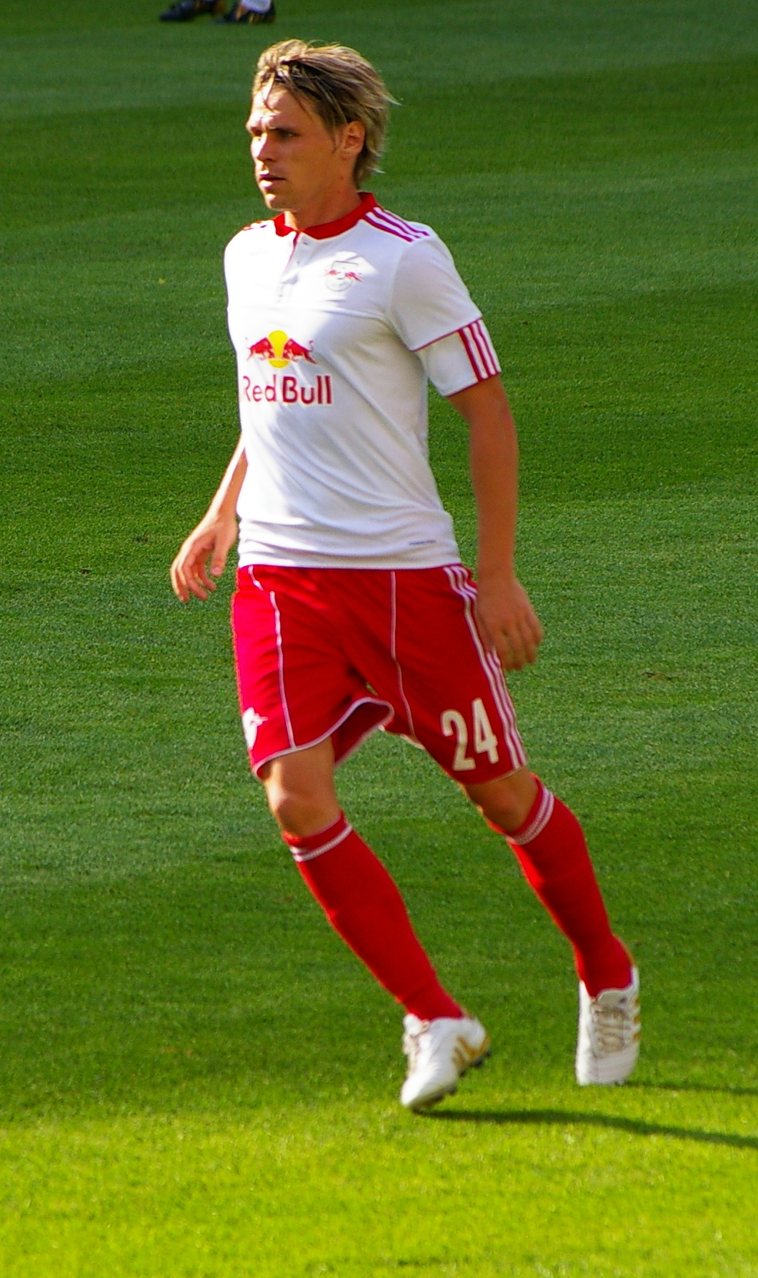 Chritoph leitgeb midfielder FC Salzburg